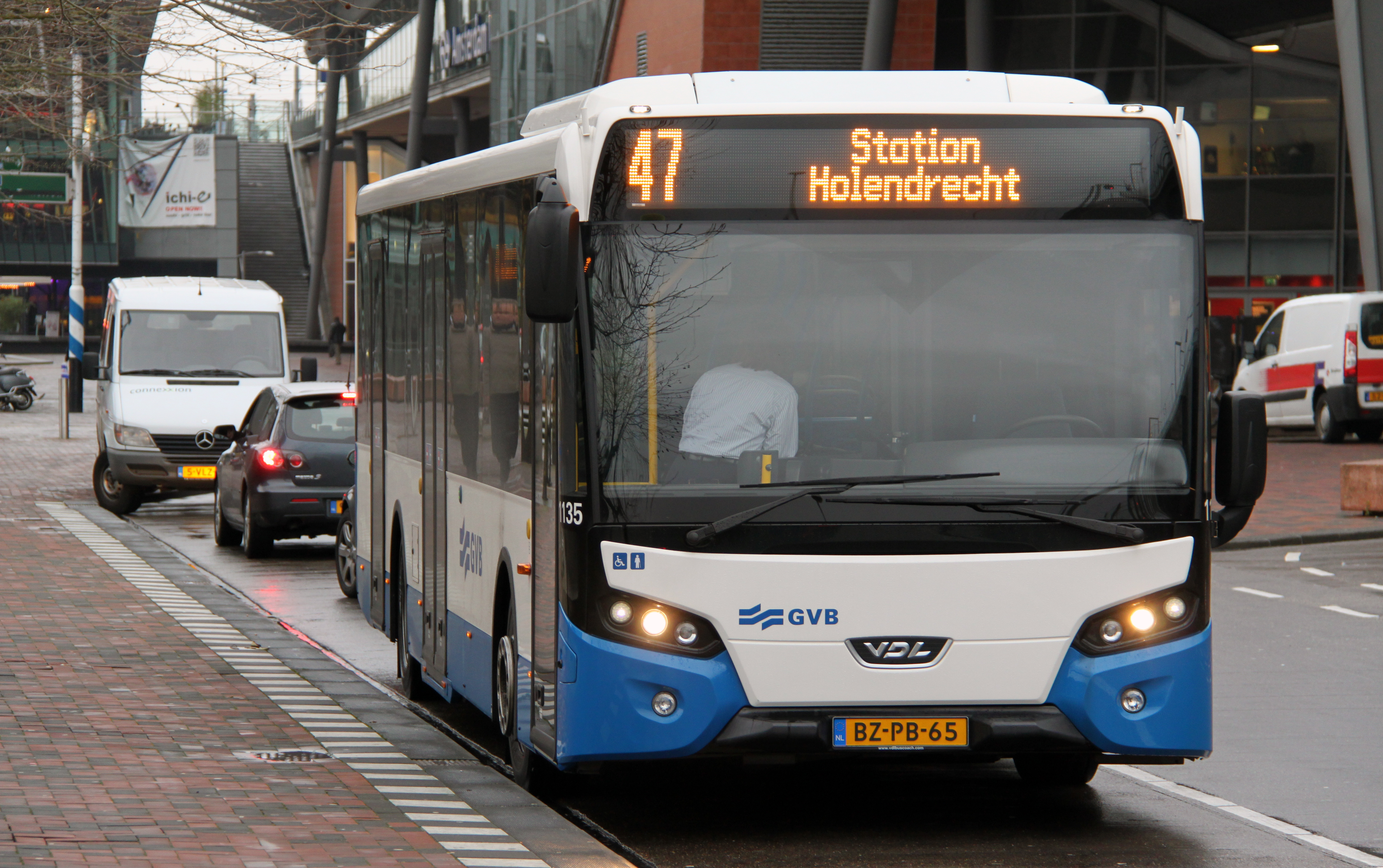 VDL Citea SLF 120 bus (#1135, reg. BZ-PB-65) in Amsterdam, Netherlands. Built 2011, GVB operator.